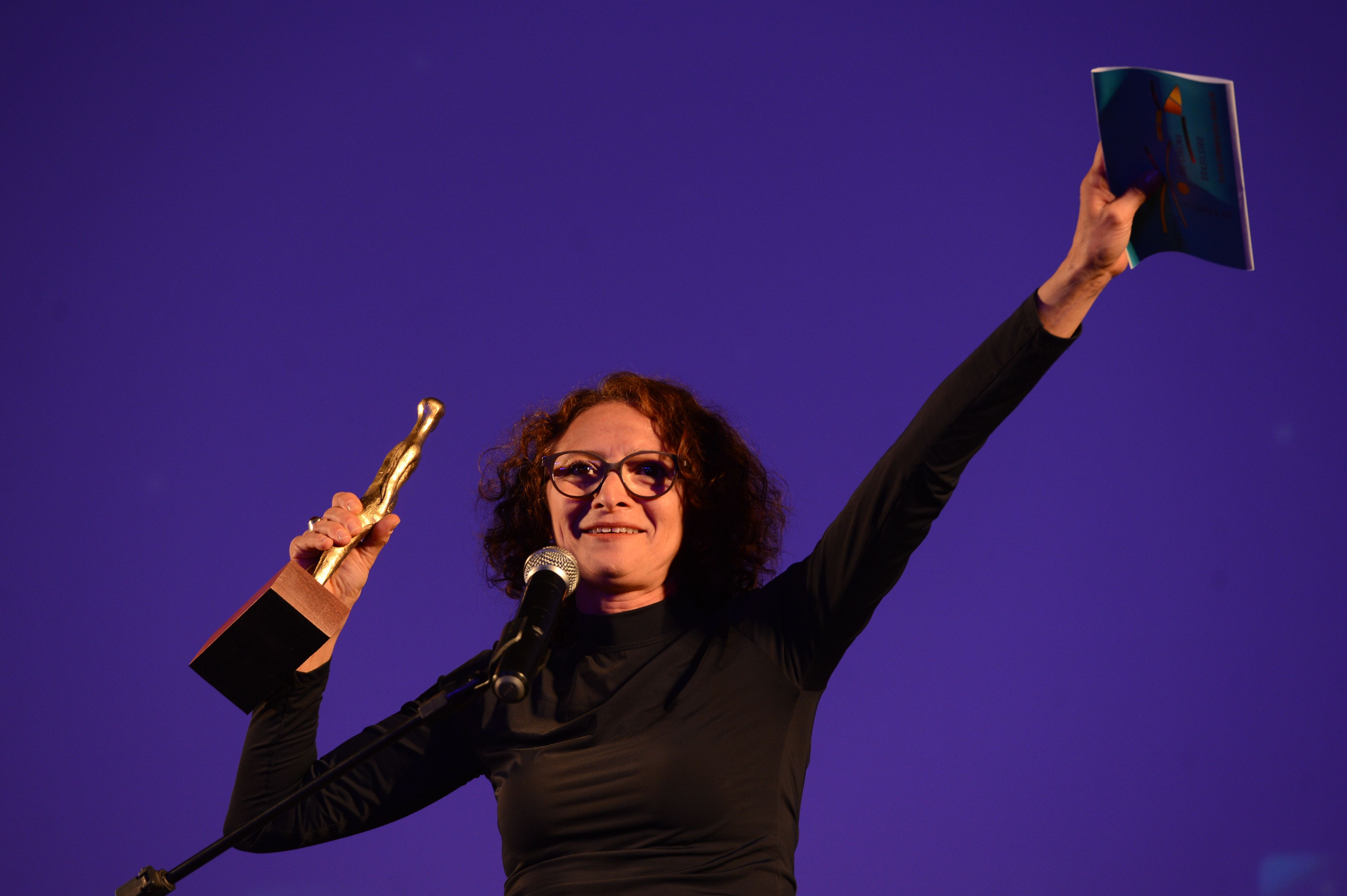 Marcélia Cartaxo - Photo by Fabio Rodrigues Pozzebom/Agência Brasil CCBY3.0